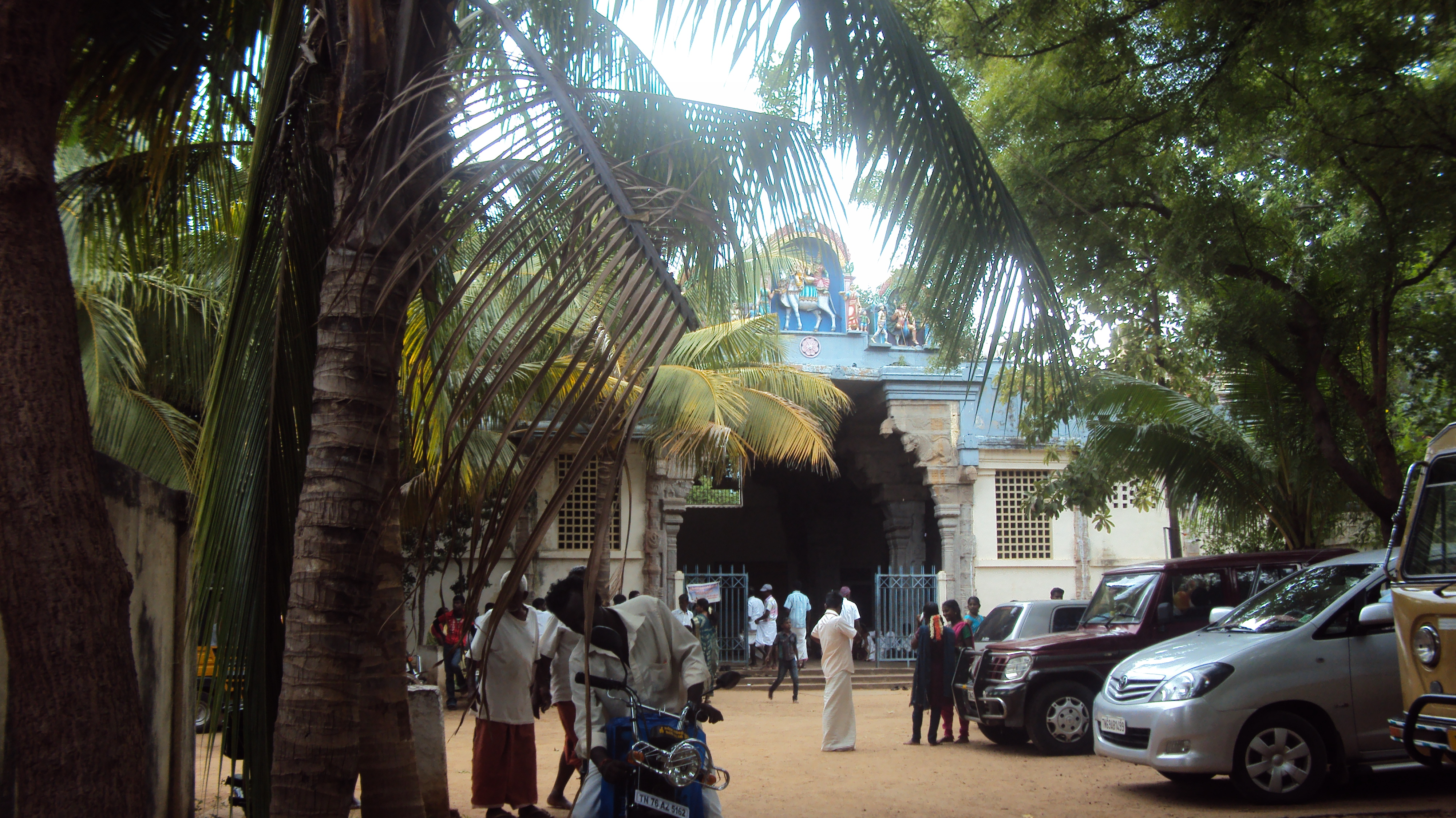 Sivasailam Temple (சிவசைலம் கோவில்)